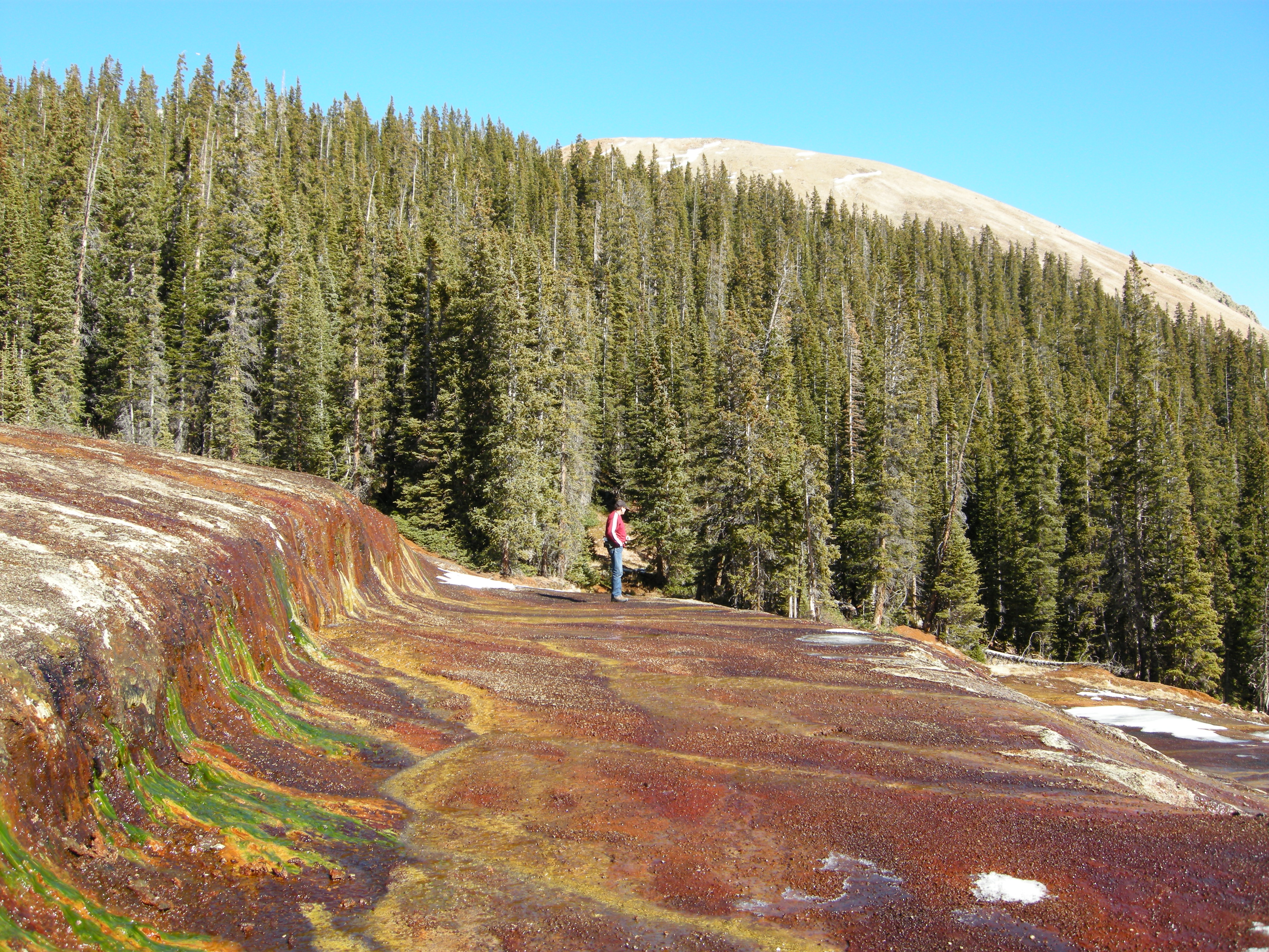 Iron oxide deposited in terraces at head of Geneva Creek, Clear Creek County, Colorado, USA, a classic iron fen.